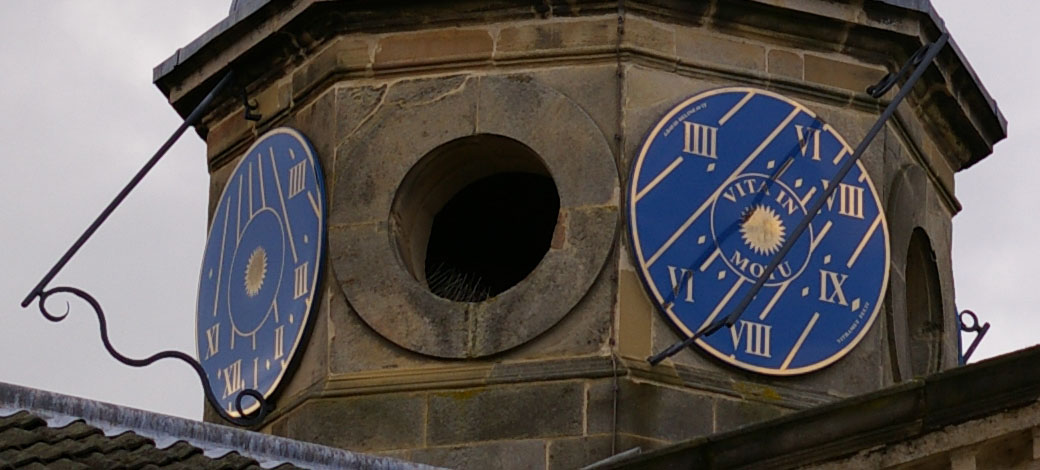 Two faces of a four-faced sundial at Houghton Hall, Norfolk, England. The Latin motto vita in motu means "life in motion". - Google Maps - Google Earth